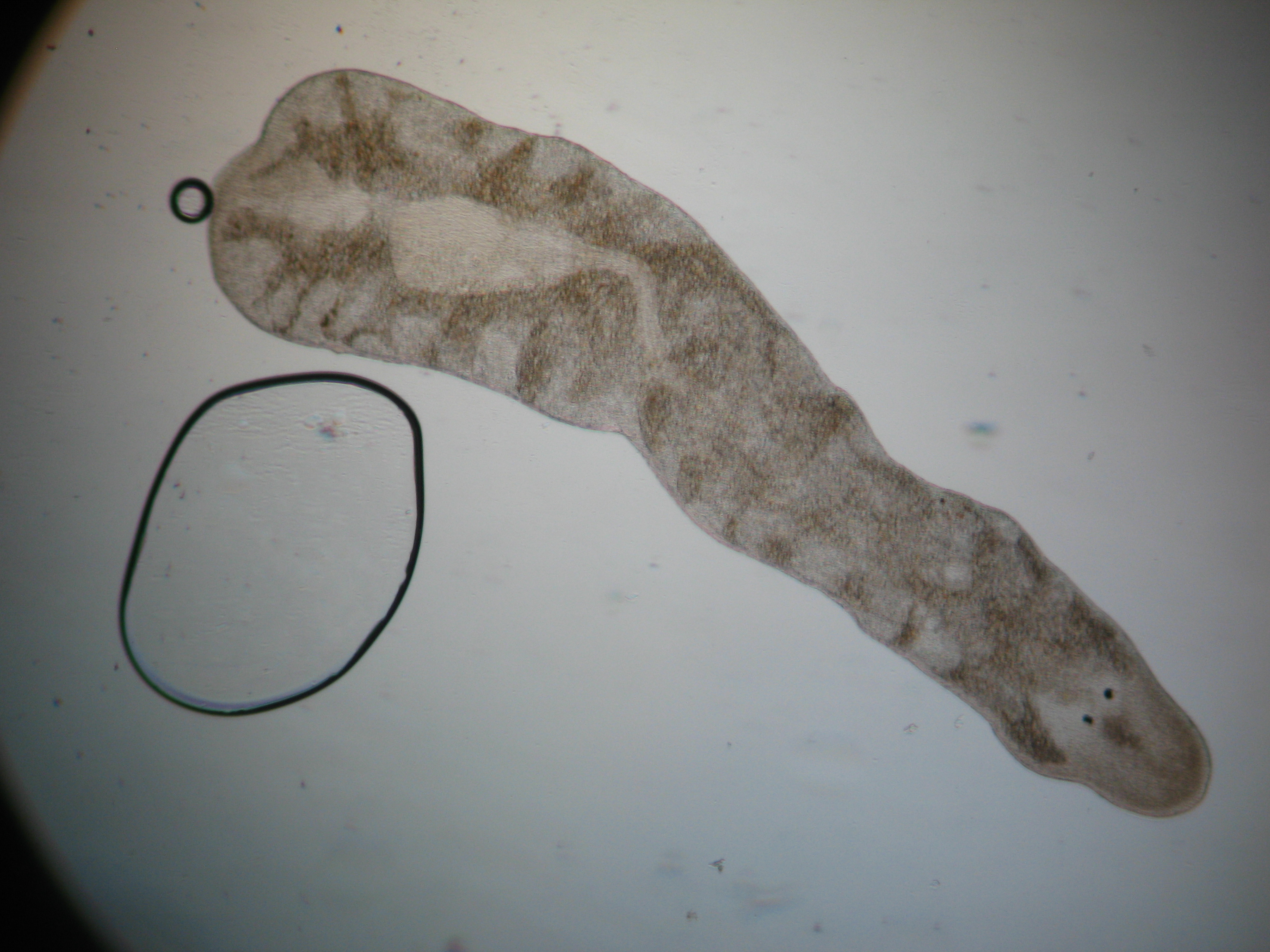 Sabussowia ronaldi, a marine triclad (Maricola) from the island of Sardinia, in clean sands of the La Maddalena archipelago.